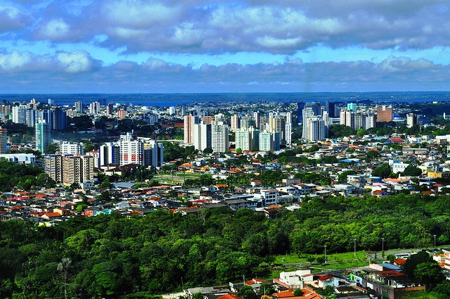 City Manaus skyline.